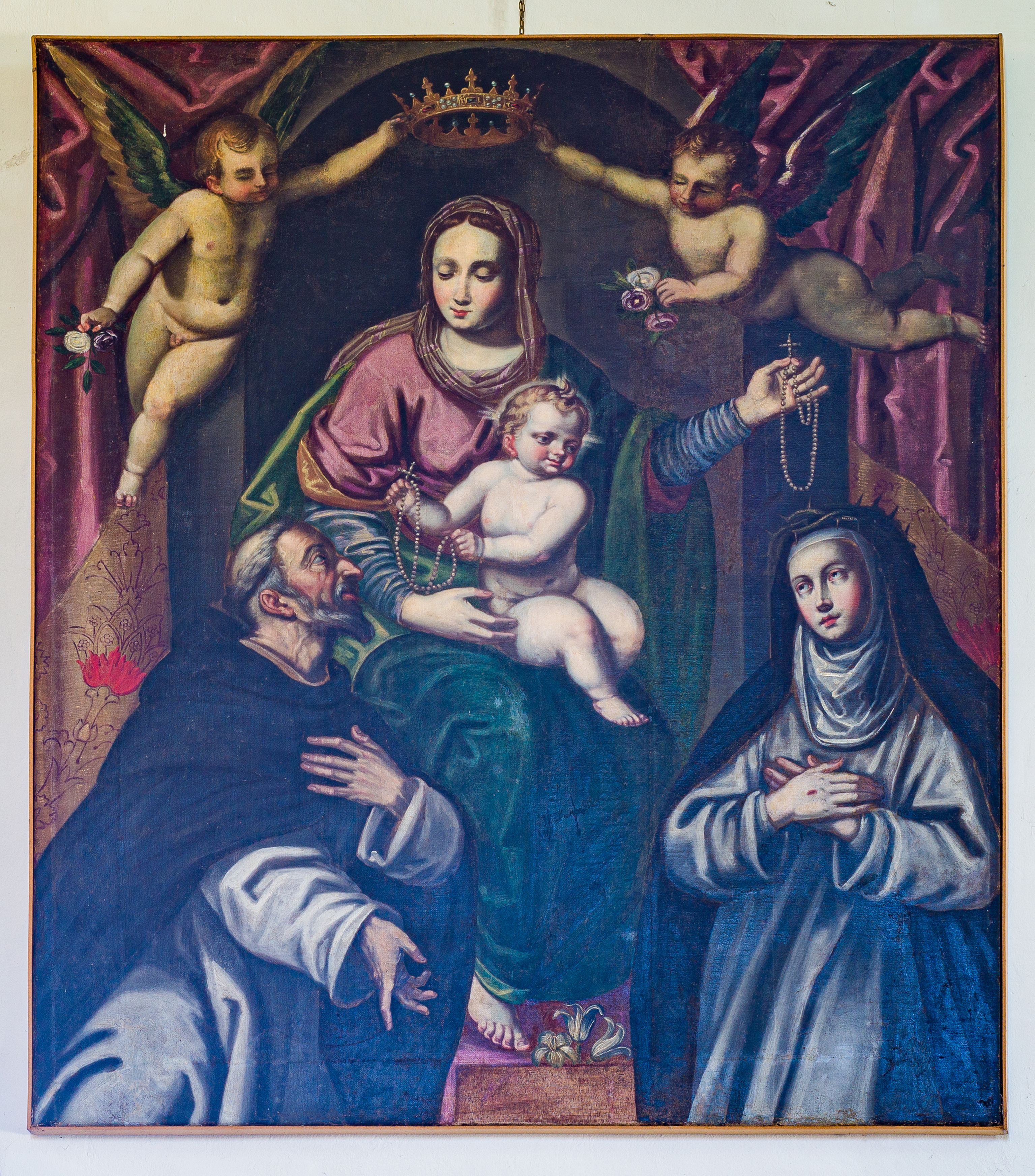 Painting of the Coronation of Mary, Saint Dominic and Saint Catherine of Siena in the San Bernardo church in Salò